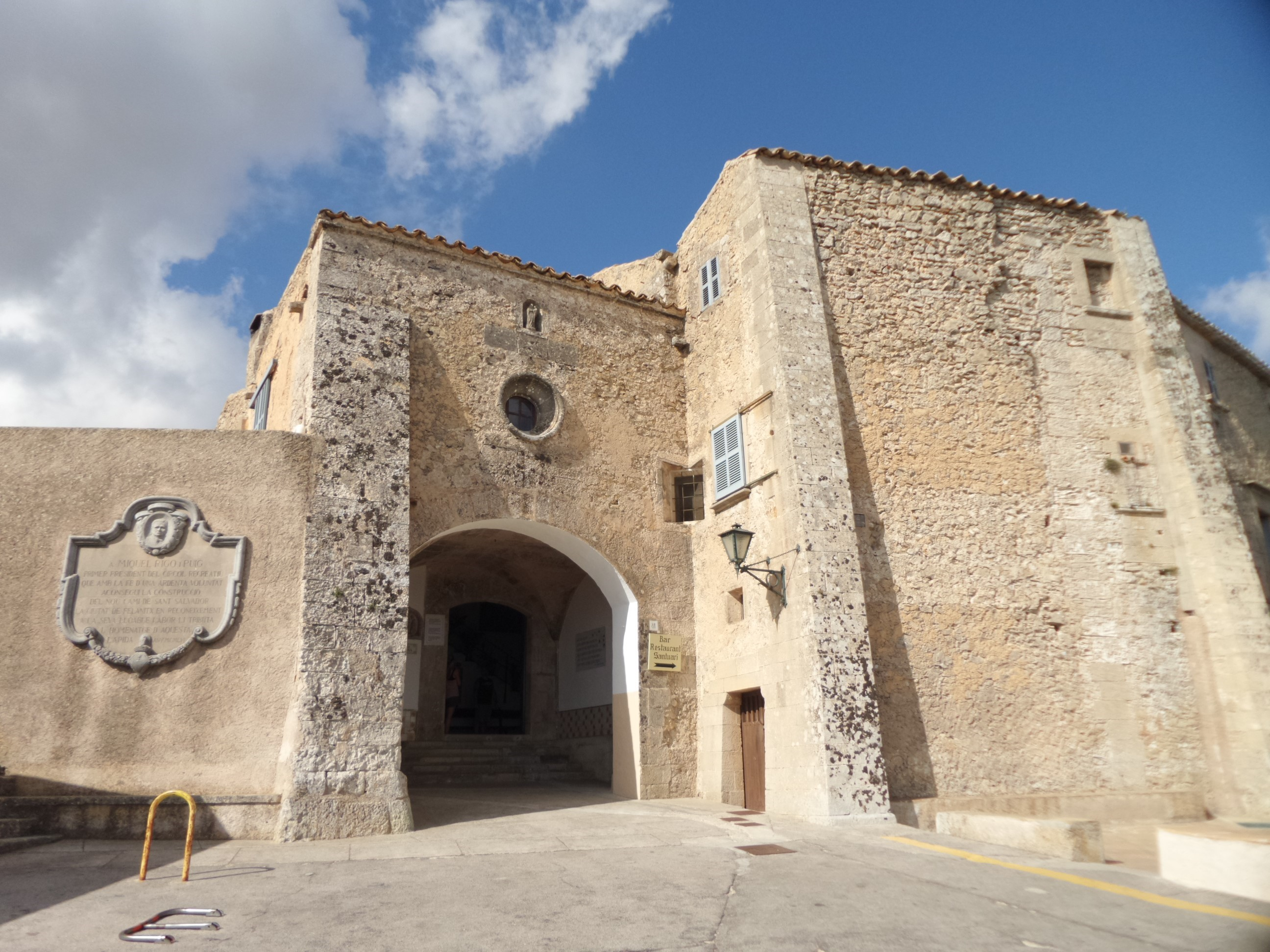 Santuari de Sant Salvador de Felanitx